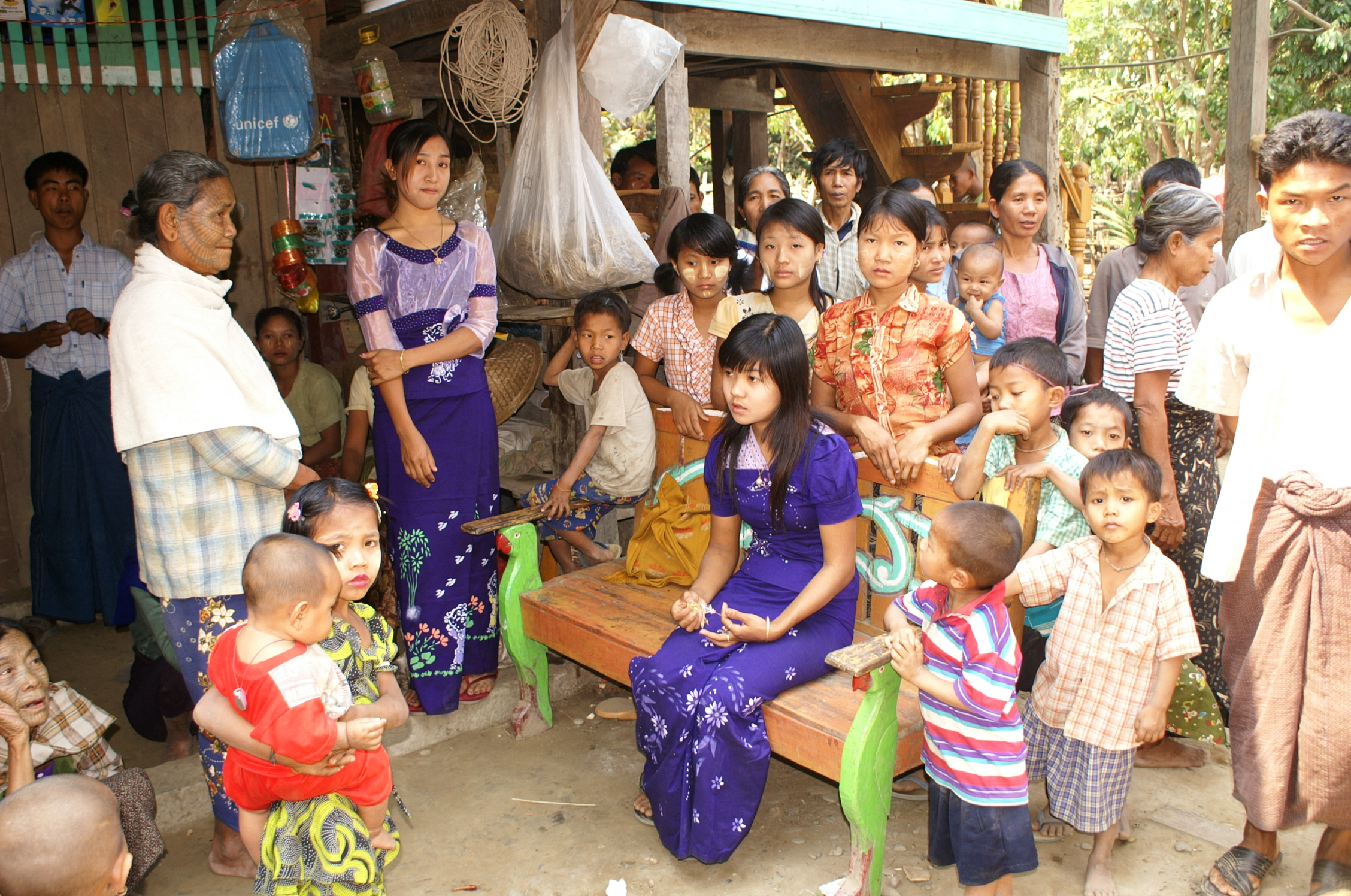 Marriage célébration in the Chin Village , in center place the future wife , particularly sad !